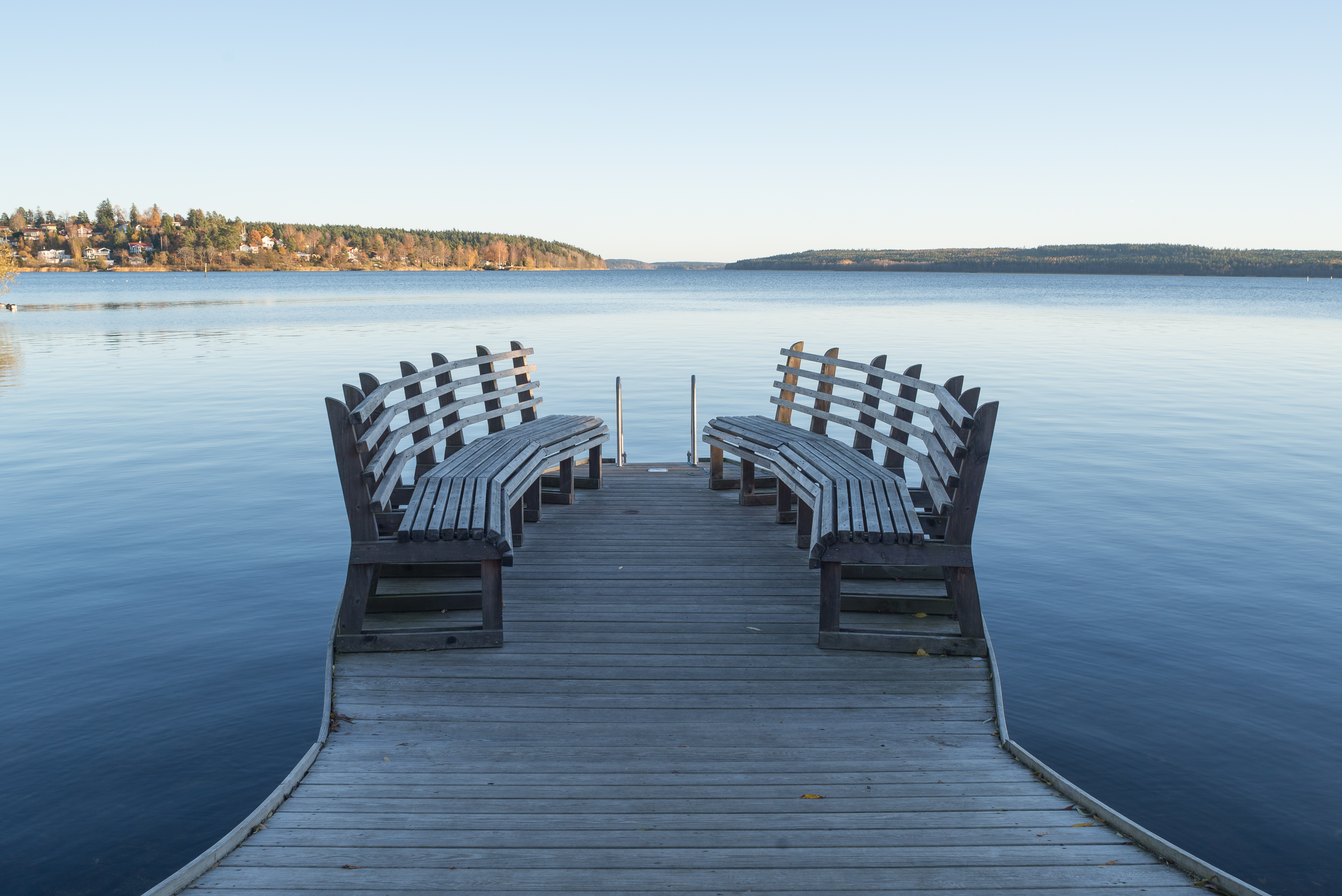 Benches on a small jetty overlooking lake Mälaren in Sigtuna, Sweden.